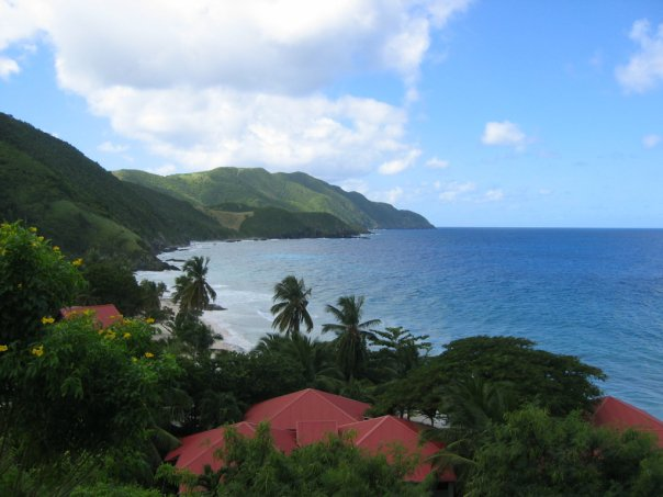 St Croix